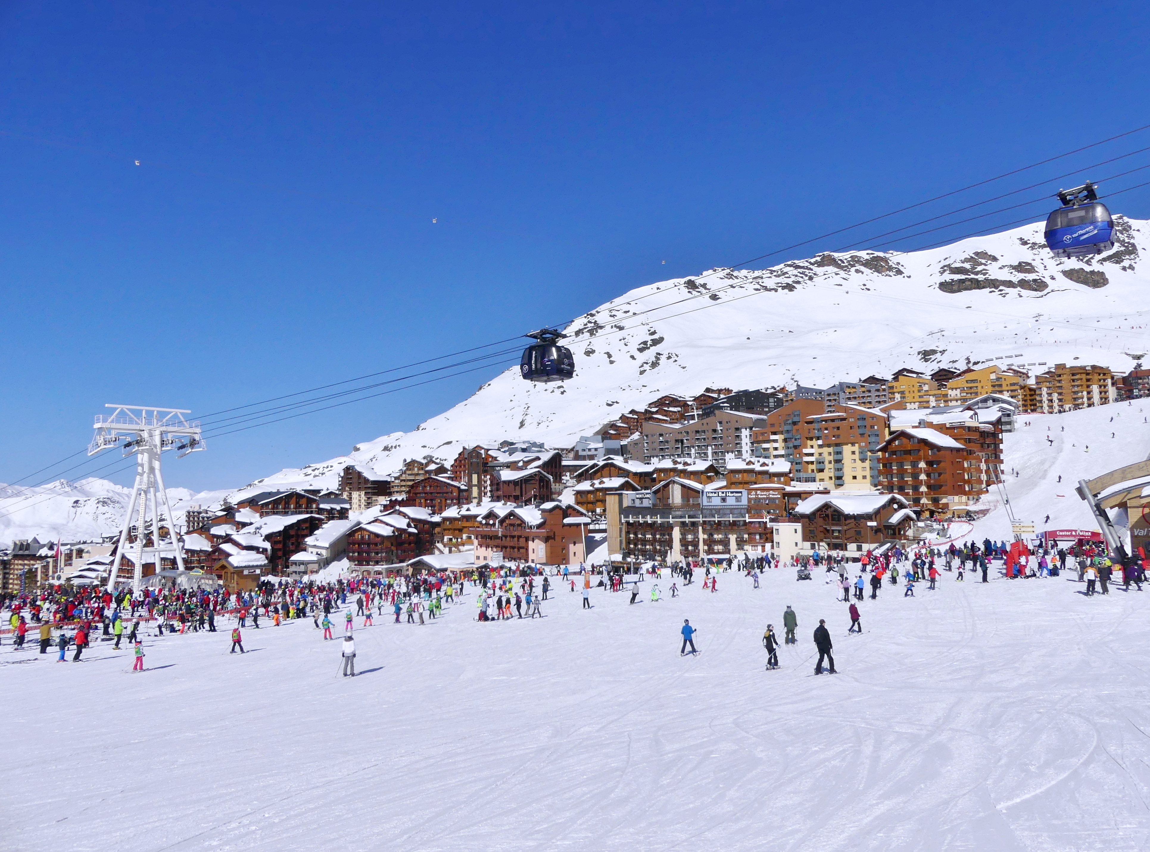 Sight, in winter, of the foot of Val Thorens ski resort anf village where main ski slopes gather, in Savoie, France.